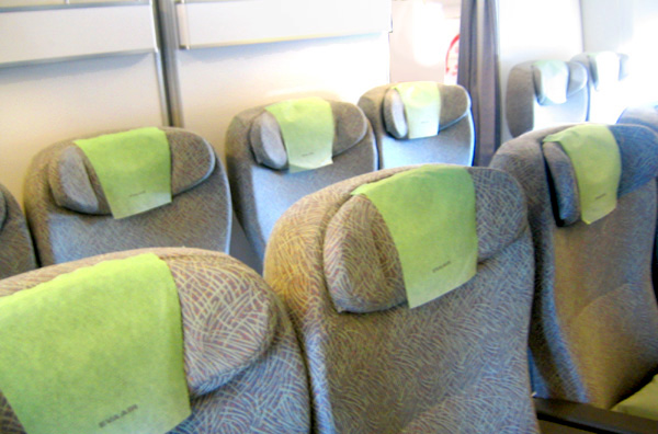 EVA Air 777 cabin